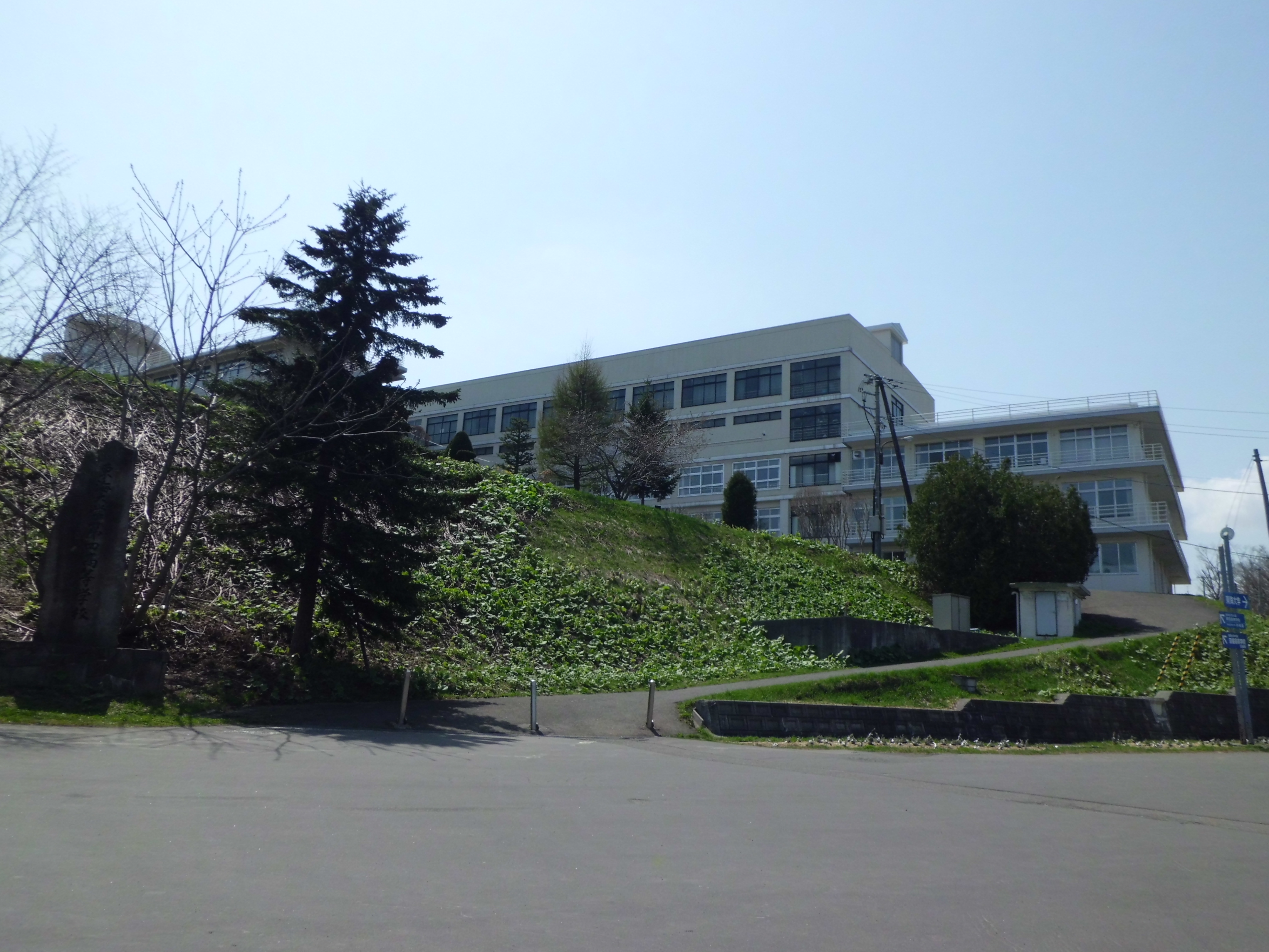 Tokai University Dai-yon High School